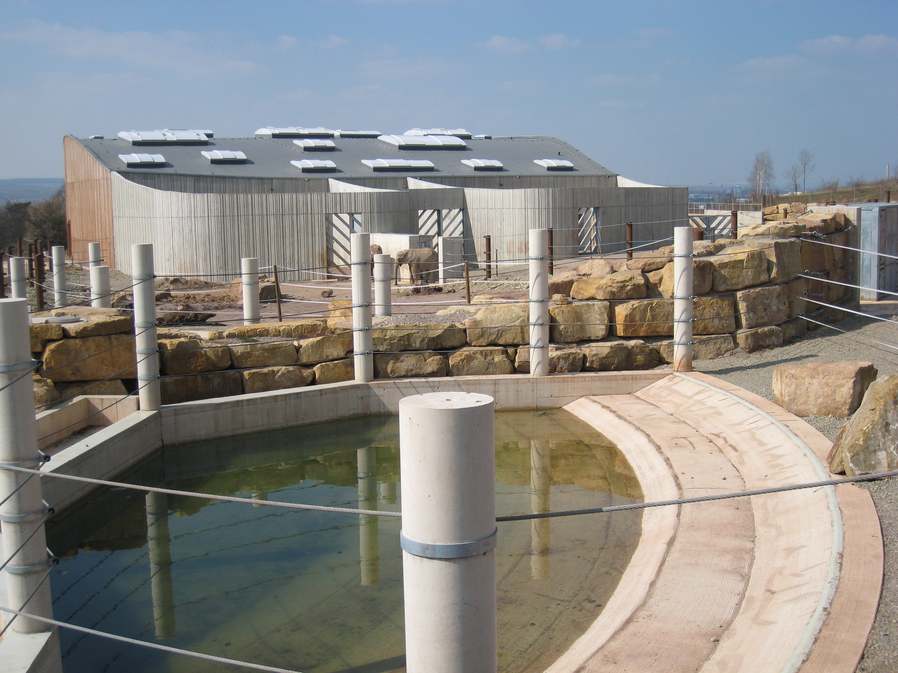 new elephant construction, zoo in Erfurt